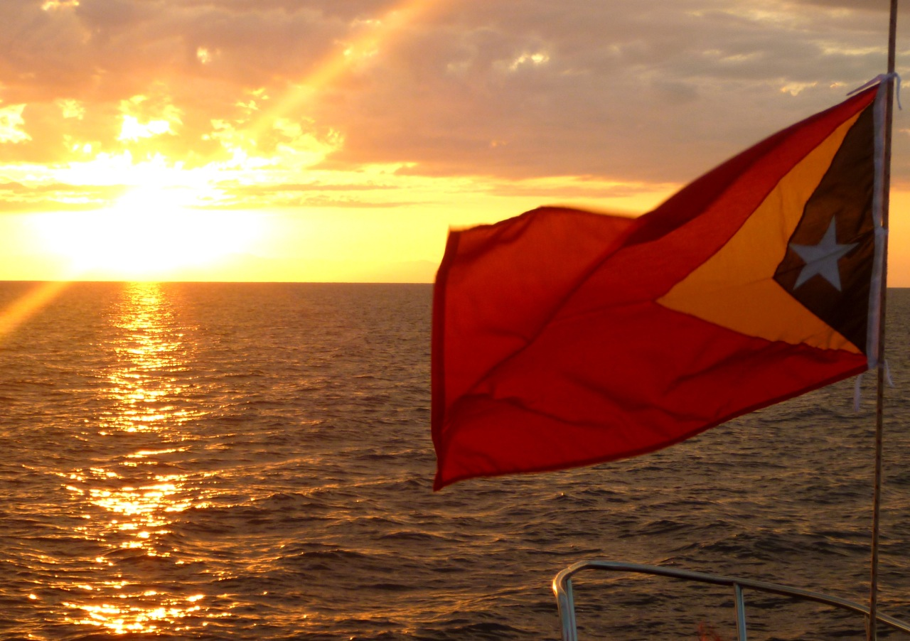 Timorese flag at sunset, Dili